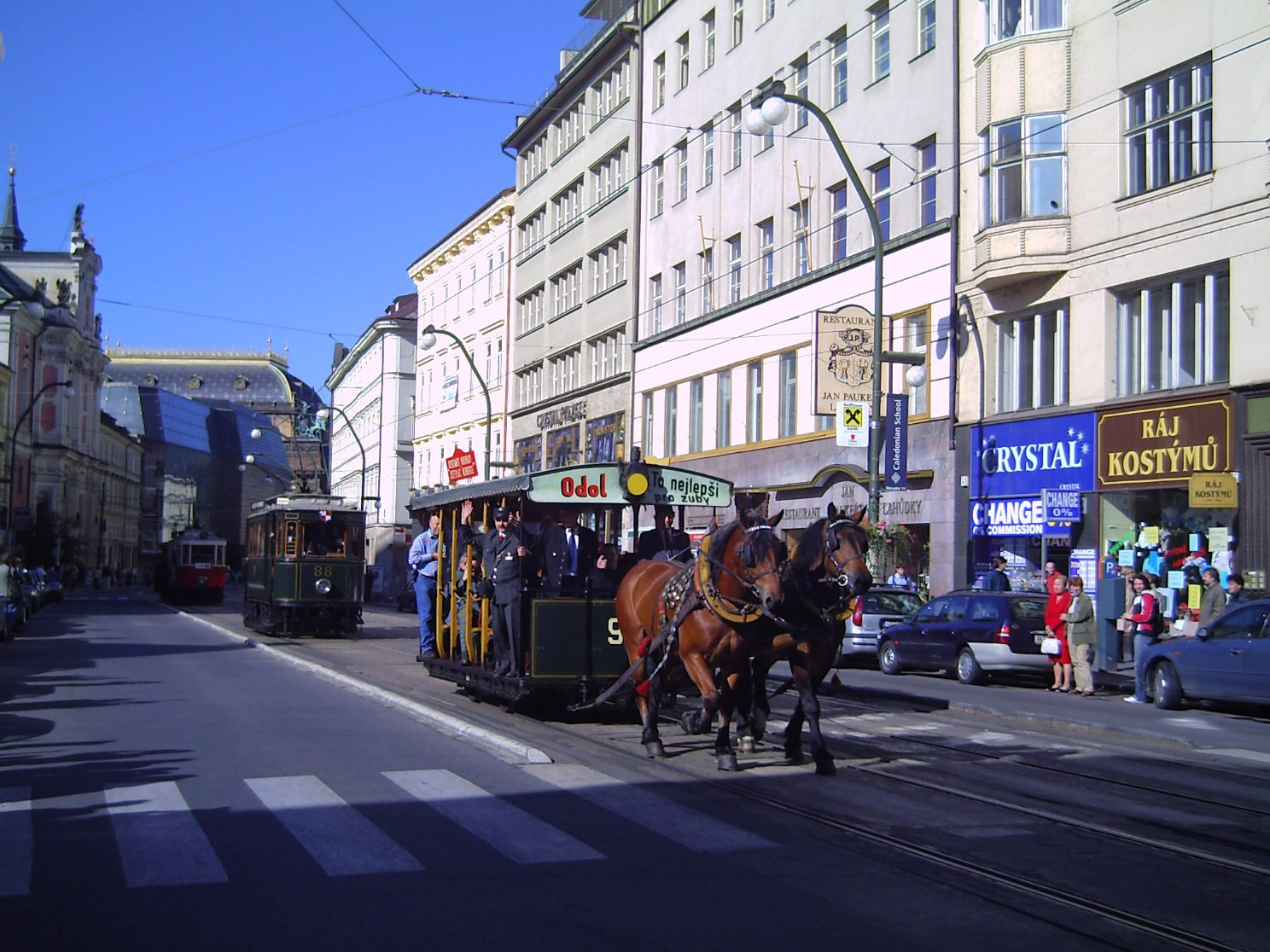 Historical horse tram and old electric trams in Prague (130 years of public transport in Prague)